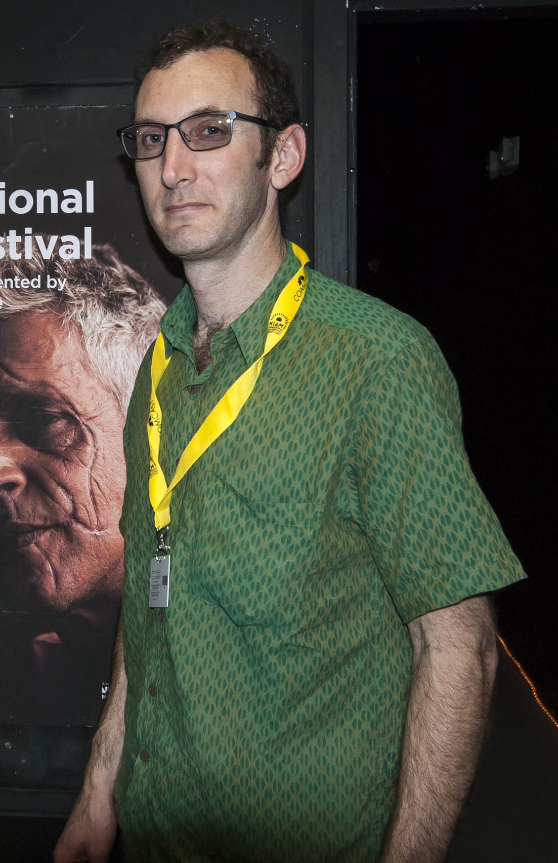 THE OVERNIGHTERS director Jesse Moss at O Cinema Wynwood Photo by: Angel Nehorayoff